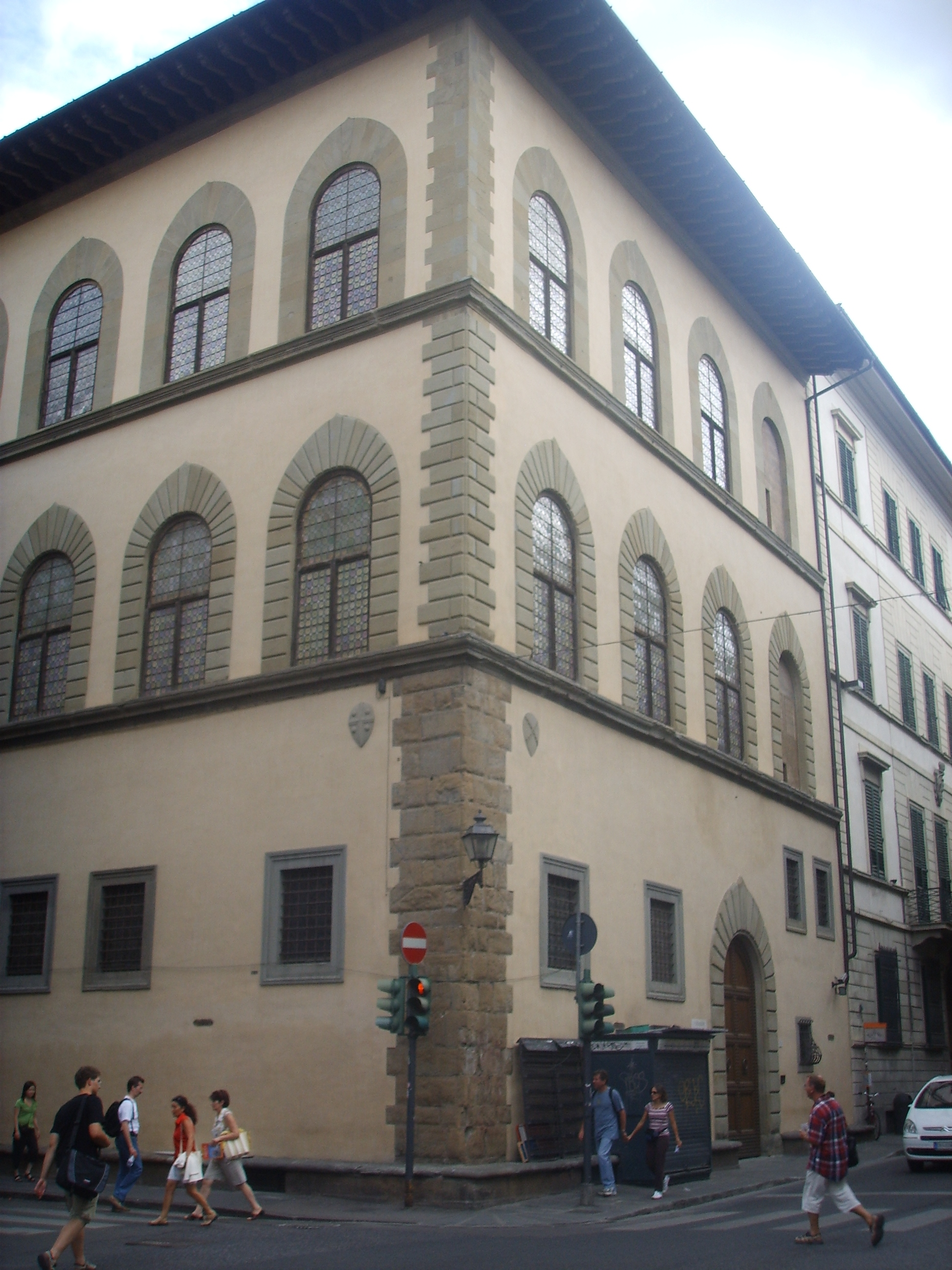 Museo Horne, outside, former Palazzo Corsi in Florence, italy